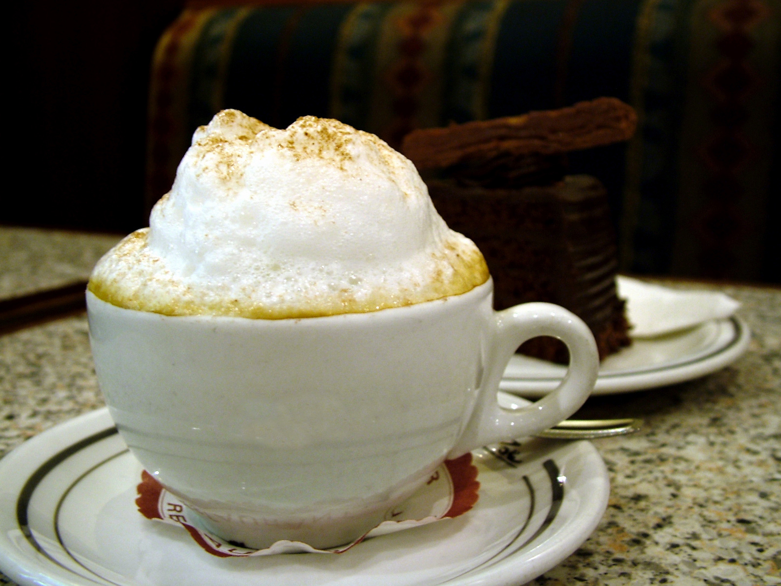 Cup of Coffee with foam